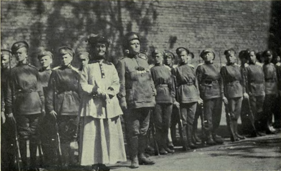 Mareea Bothckareva, Mrs. Emmeline Pankhurst and women of the Battalion of Death, 1917.